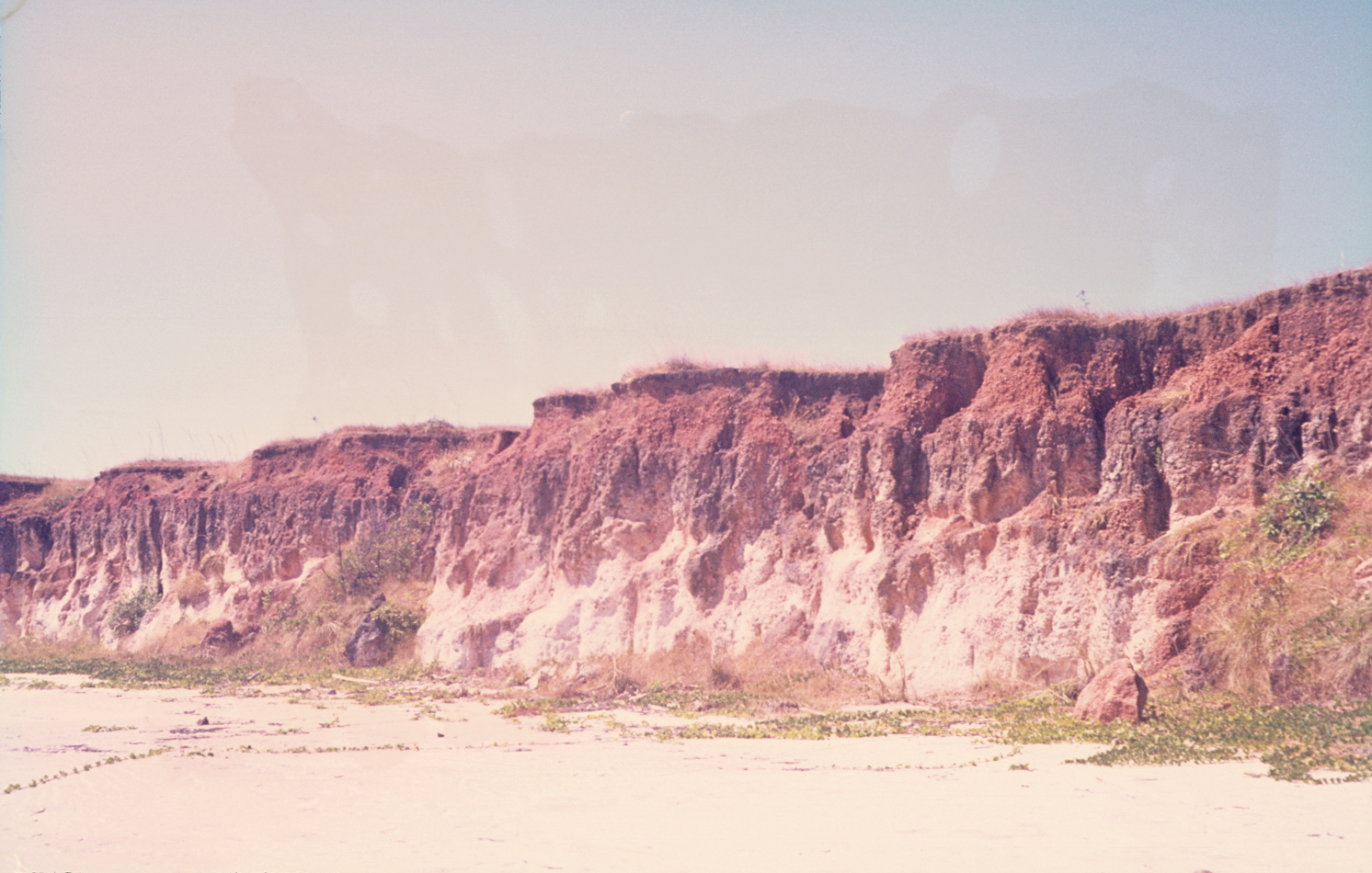 Bauxite section on kaolinitic sandstone (white) at Pera Head (detail of photo C 006.jpg). Bauxite deposit Weipa, Australia.